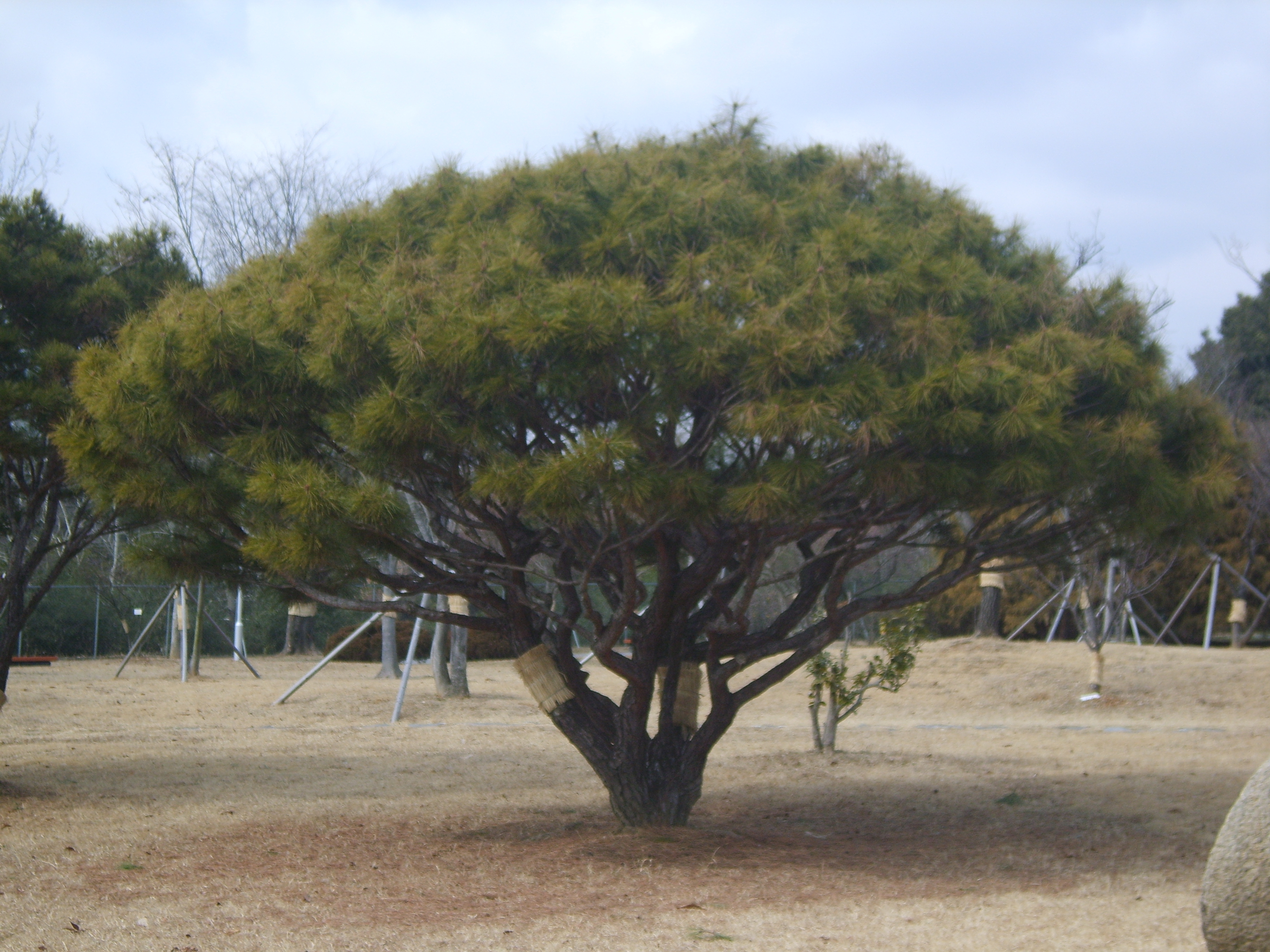 Pinus densiflora for. 'Multicaulis' cultivar. Gwangju — Korea.